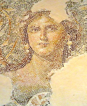 mosaic from ancient zippori פסיפס של פני אישה מציפורי הקדומה המכונה "מונה ליזה הגלילית"